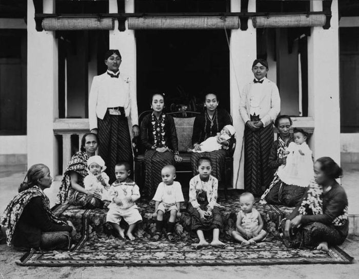 Group portrait of Hamengku Negoro VII, Hoesein Djajadiningrat, their wives Ratu Timur and Partini, children and staff who take care of the children